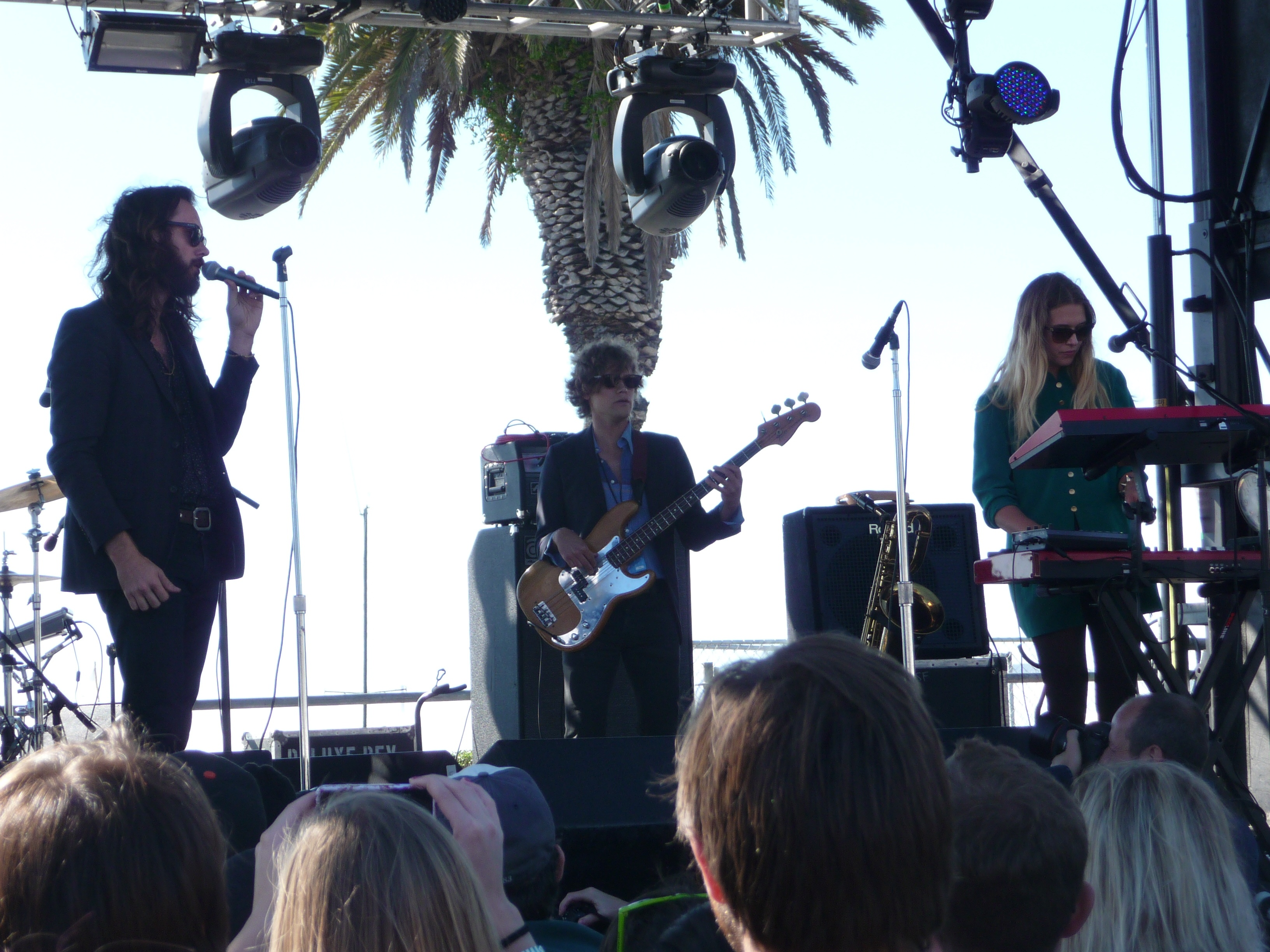 Wild Belle performing at Treasure Island Music Festival in California in 2012